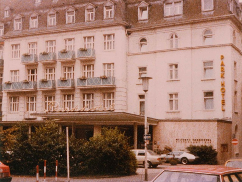 The picture of this not-anymore-existing hotel was made on the weekend of March 27/28 in 1982 when there was the first meeting of Elvis-fans, organized by Elvis-Presley-Gesellschaft in Germany, in Bad Nauheim - and also the only Elvis-fan meeting in this location due to the closing of the hotel 6 months later.